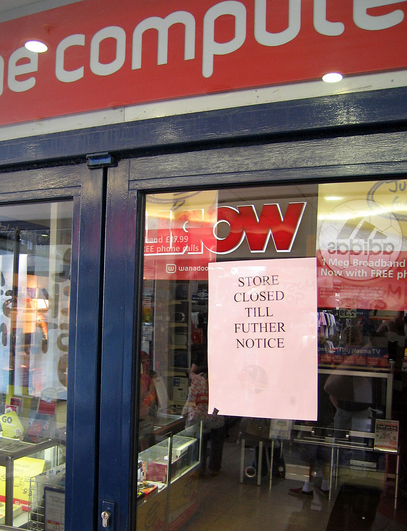 Bankrupt computer store, closed without notice the day after its parent company, Tiny PCs and Granville Technology Group, declared bankruptcy in the UK on the 27 July 2005. Keywords: bankruptcy, shop, Tiny Computers